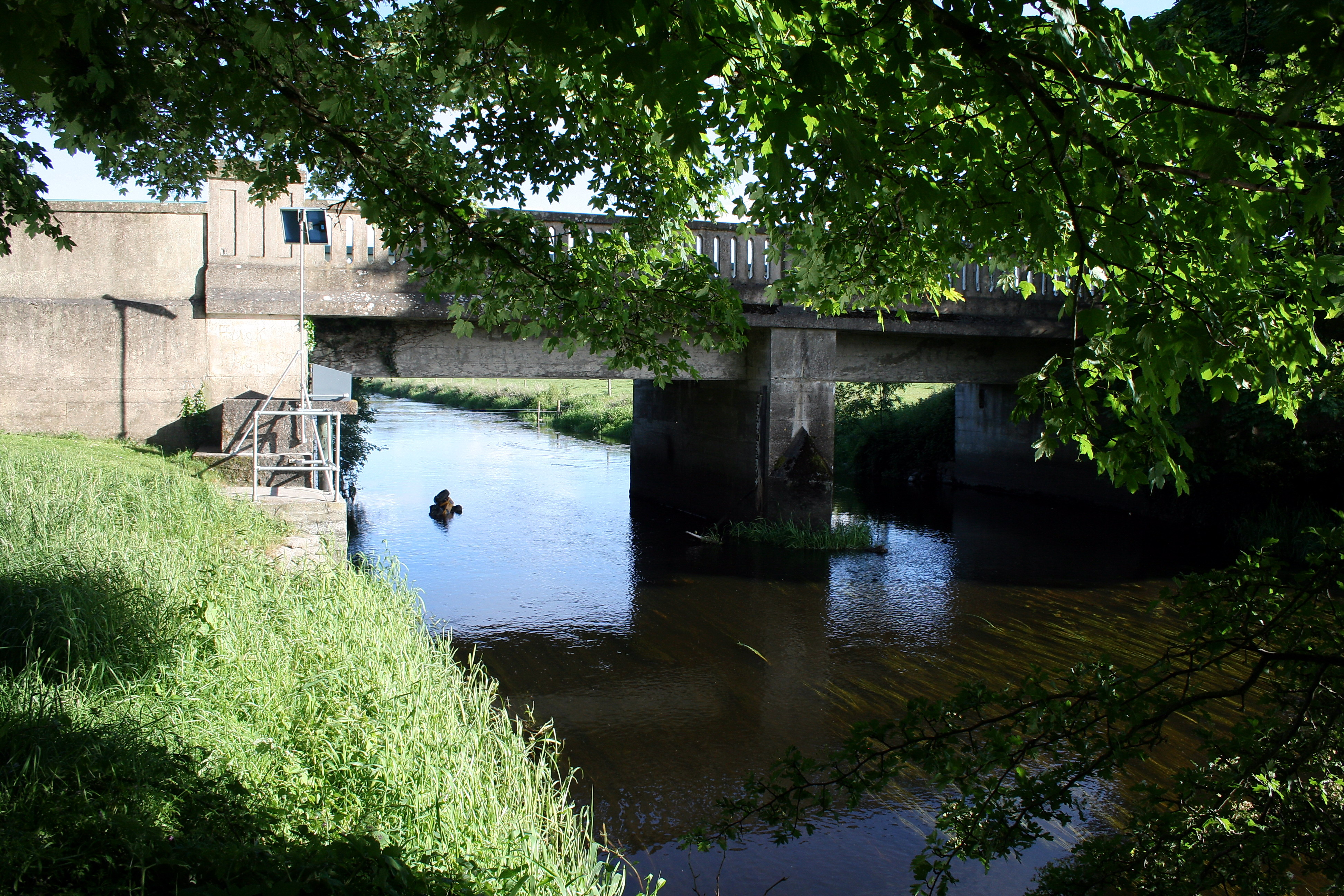 Ardra Bridge carrying the R419 over the River Figile in Bracknagh, County Offaly. The bridge appears to be crumbling underneath and some solar powered censoring equipment is installed.